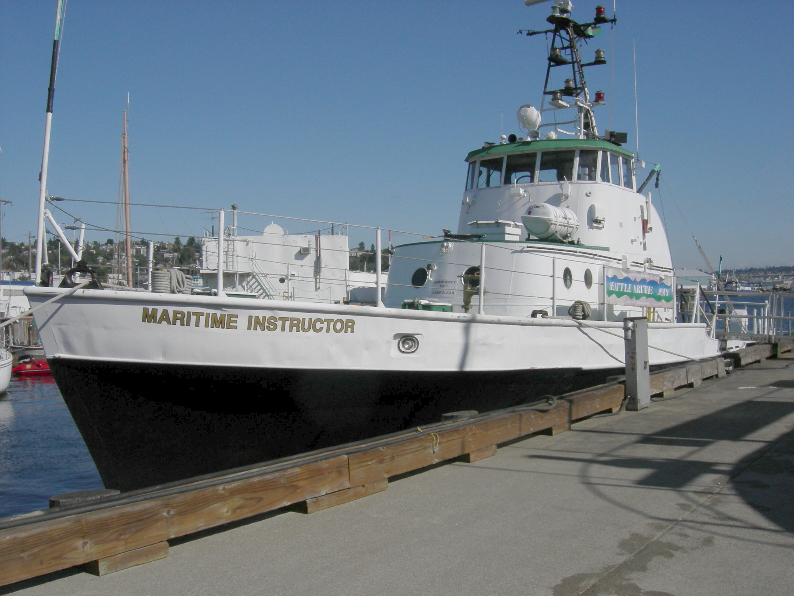 The Maritime Instructor, Seattle Maritime Academy, Seattle, Washington, USA. The Seattle Maritime Academy is part of Seattle Central Community College (although it is several miles from the rest of the campus).